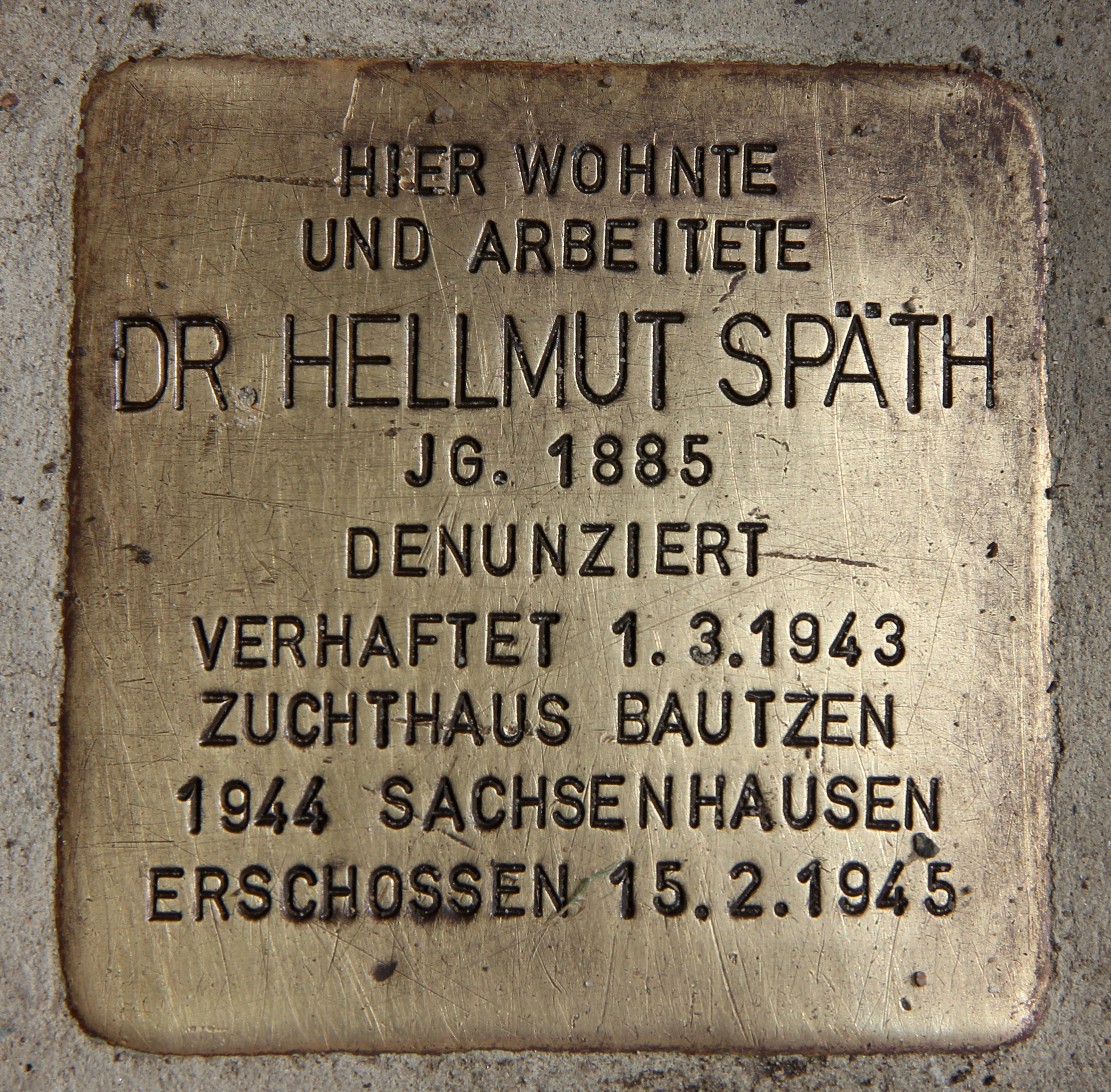 "Stolperstein" (stumbling block), Hellmut Späth, Späthstraße 80-81, Berlin-Baumschulenweg, Germany